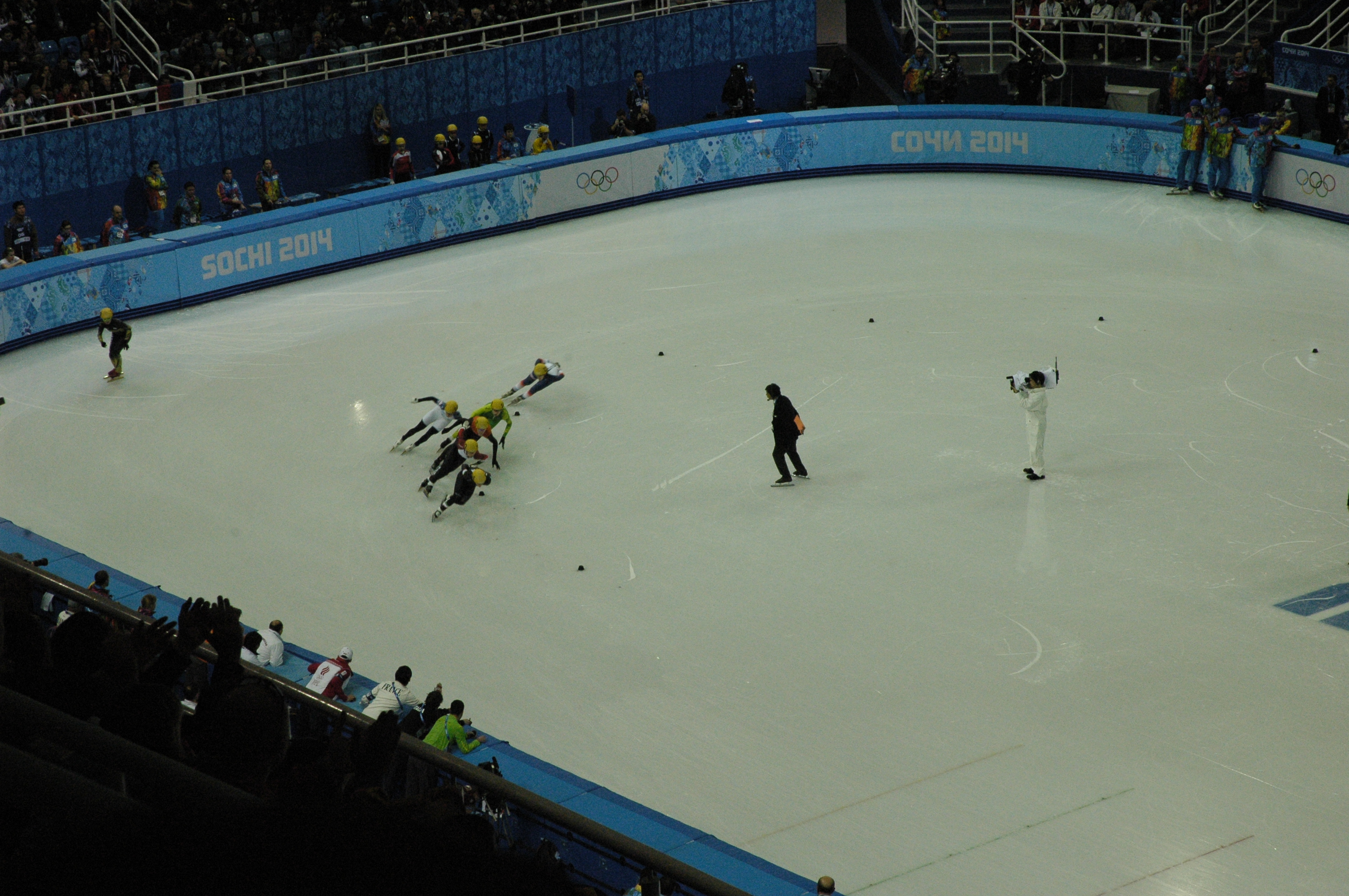 Semifinal 2 1 2 Arianna Fontana Italy 2:19.336 QA 2 2 Jorien ter Mors Netherlands 2:19.382 QA 3 2 Bernadett Heidum Hungary 2:20.196 QB 4 2 Véronique Pierron France 2:20.216 QB 5 2 Olga Belyakova Russia 2:20.391 6 2 Agnė Sereikaitė Lithuania 2:20.398 7 2 Ayuko Ito Japan 2:56.961